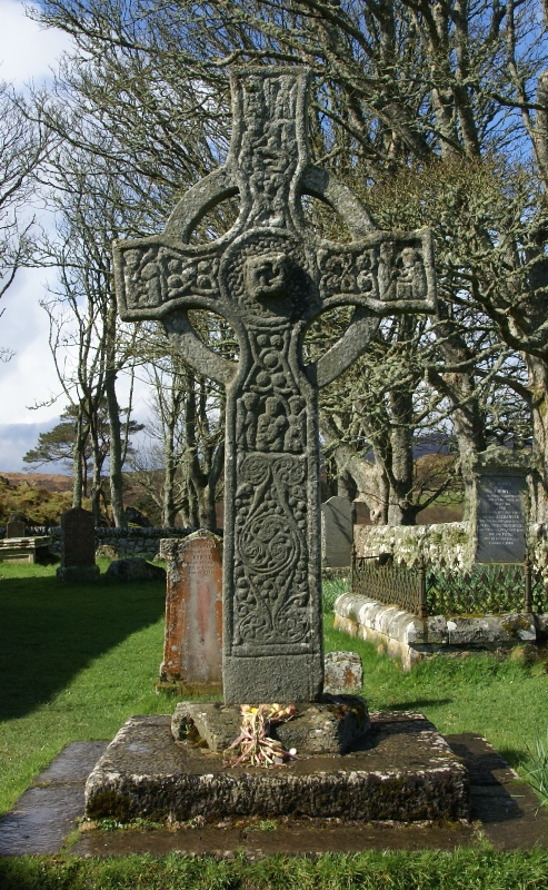 Kildalton Cross, Kildalton, Islay, Argyll and Bute, Scotland. East side.